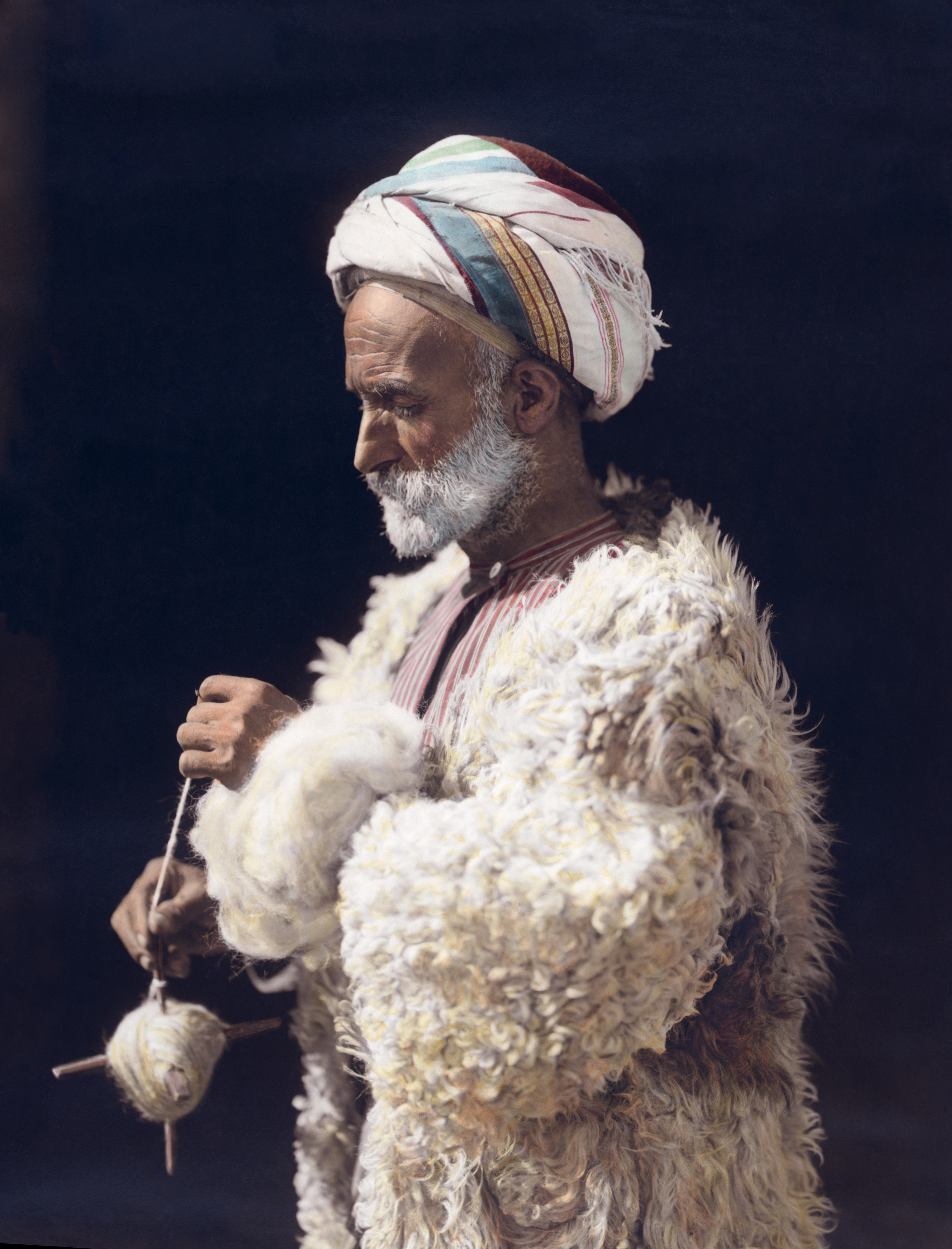 Ramallah man spinning wool. Hand colored photographic print.